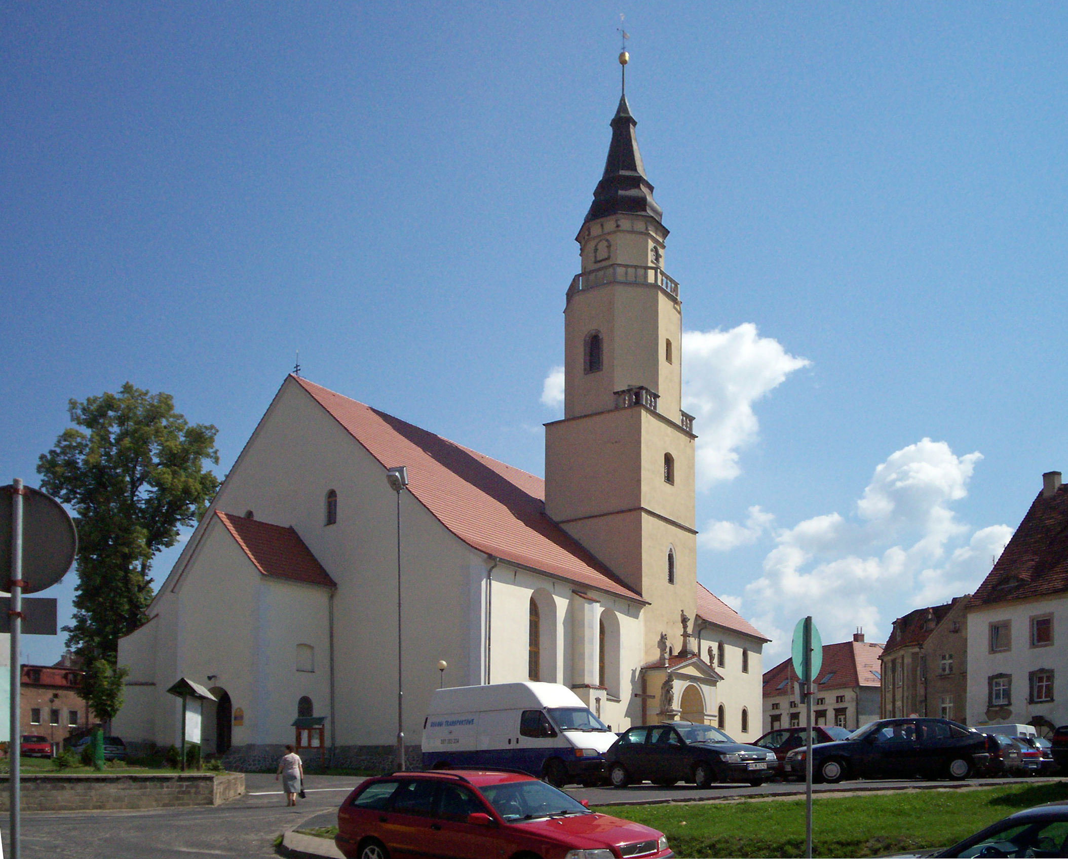 Saint Hedwig Church in Gryfów Śląski